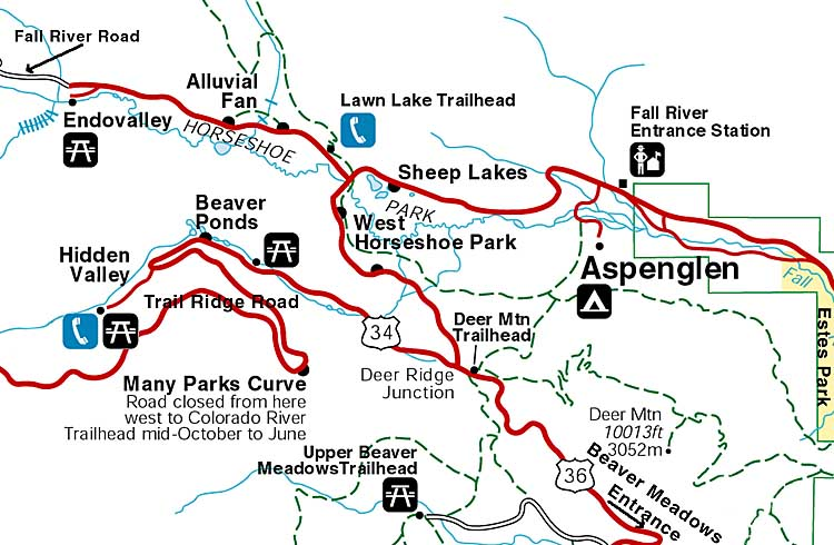 Map of Horseshoe Park, Rocky Mountain National Park. Year of creation is unknown.